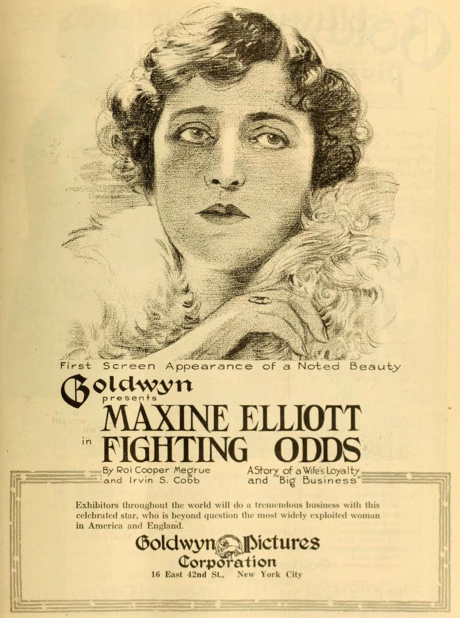 Advertisement in The Moving Picture World for the American drama film Fighting Odds (1917).